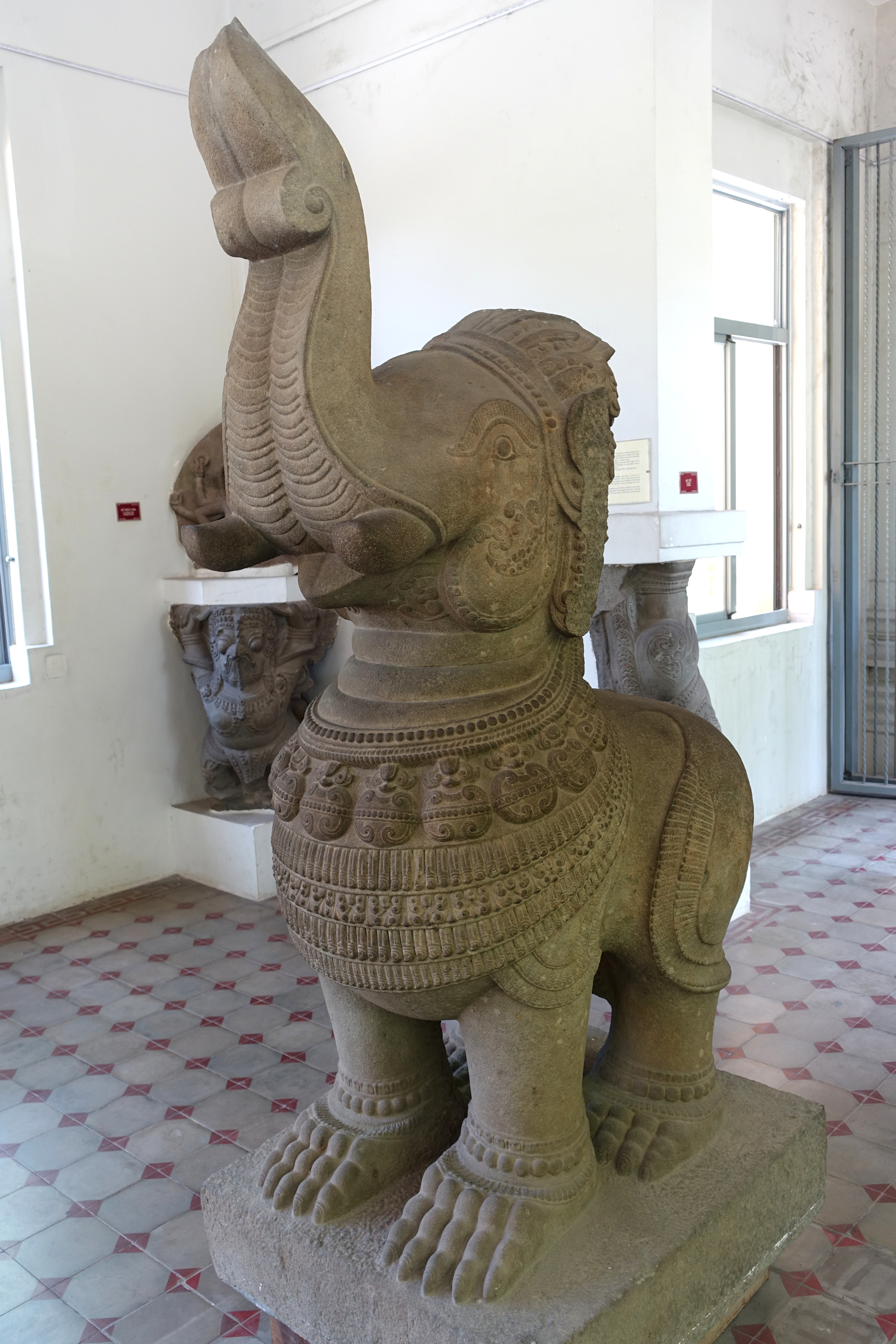 Cham sculpture at the Museum of Cham Sculpture, Da Nang, Vietnam. This artwork is in the public domain because the artist died more than 70 years ago.